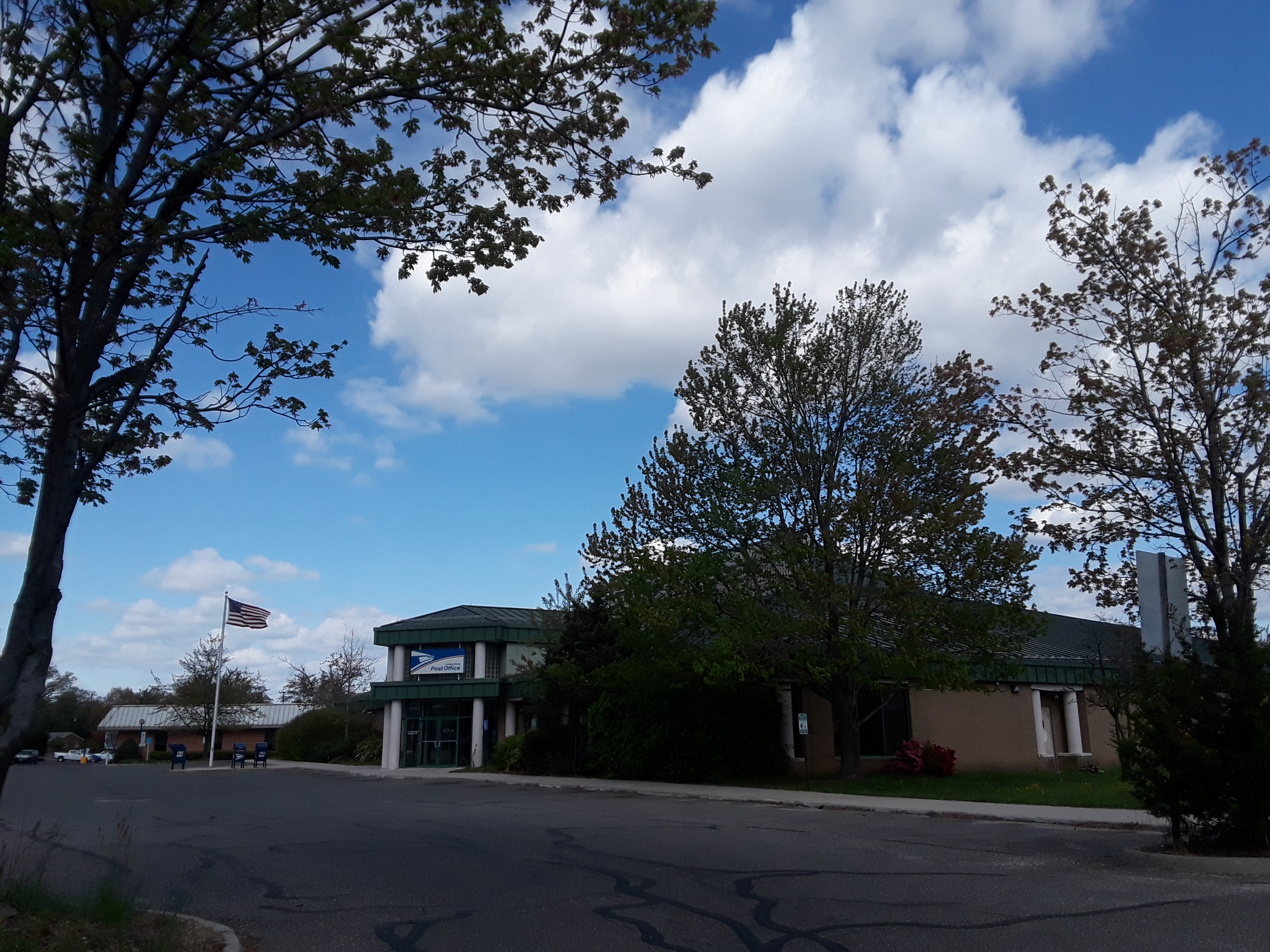 Post office in Rose Hill, Fairfax County, Virginia